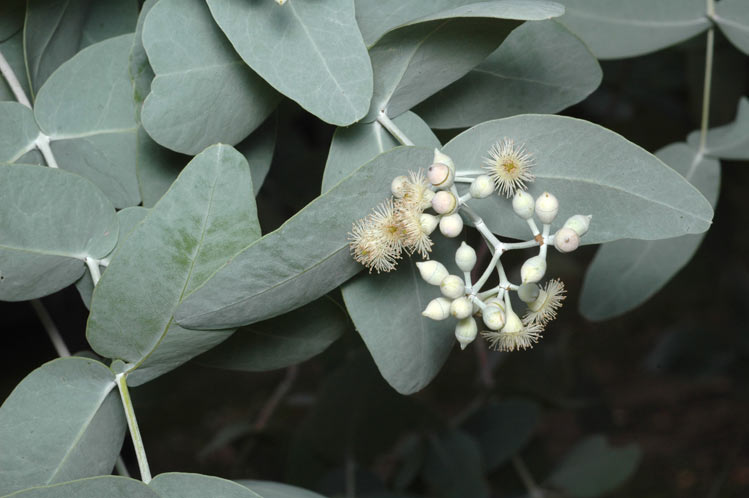 Foliage and flower buds of "Eucalyptus melanophloia